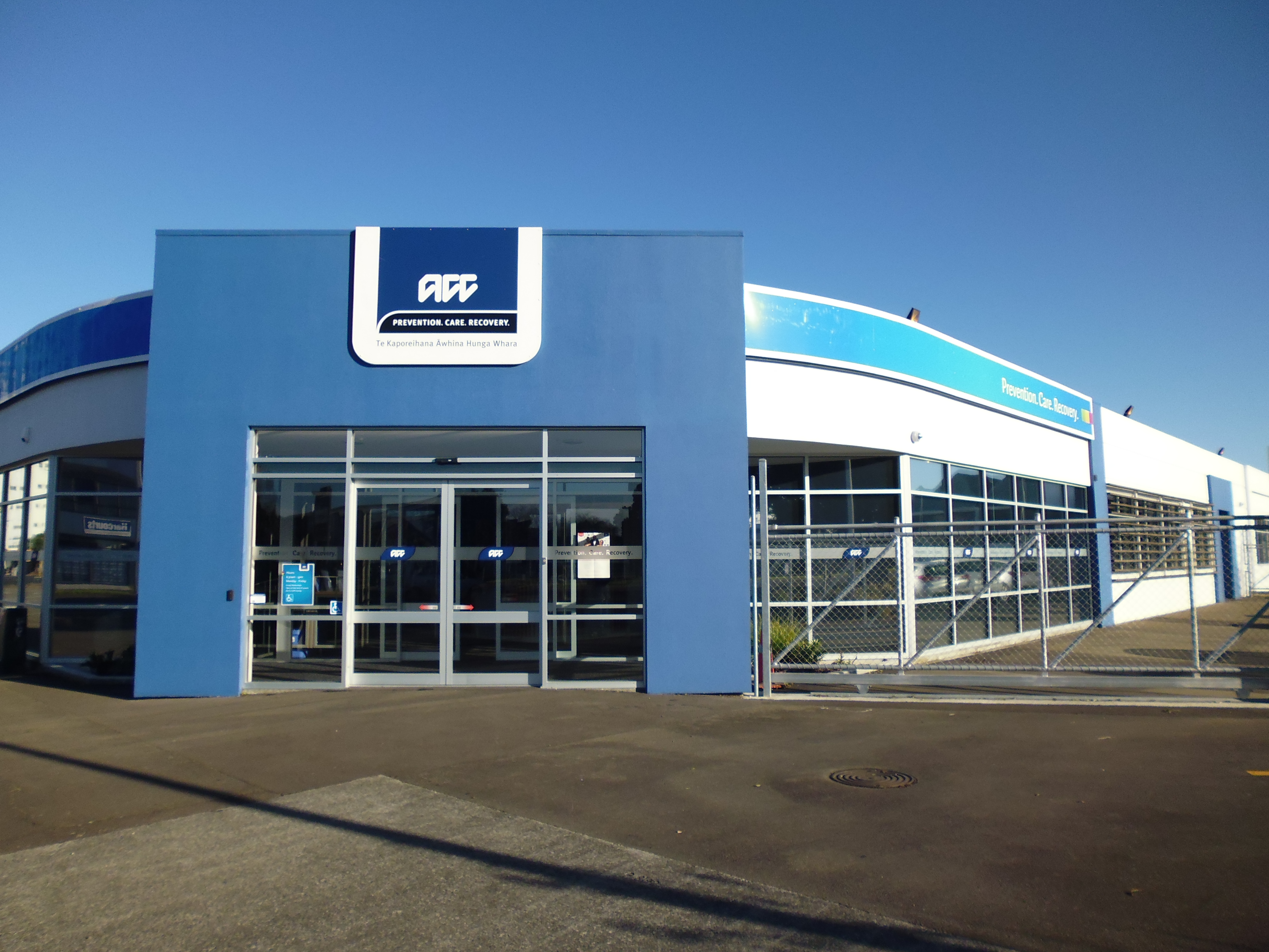 A view of the Accident Compensation Corporation (ACC) branch in Palmerston North, New Zealand.